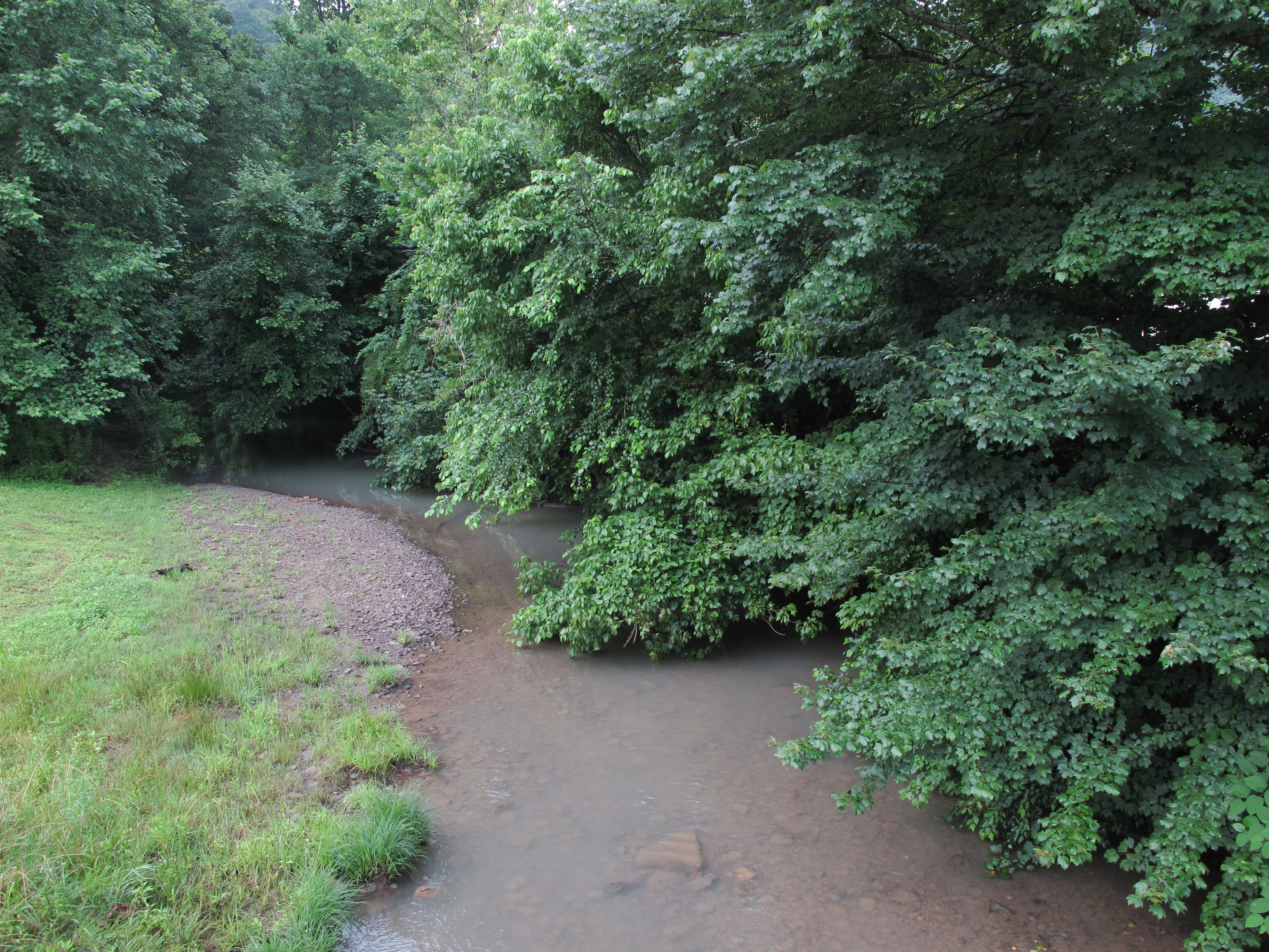 Witcher Creek in Witcher, West Virginia, as viewed downstream from a bridge leading to the "Cross Creek Subdivision" on the east side of Witcher Creek Road (County Road 70).